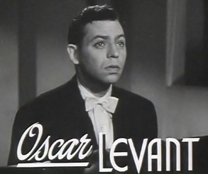 Cropped screenshot of Oscar Levant from the trailer for the film Rhapsody in Blue.